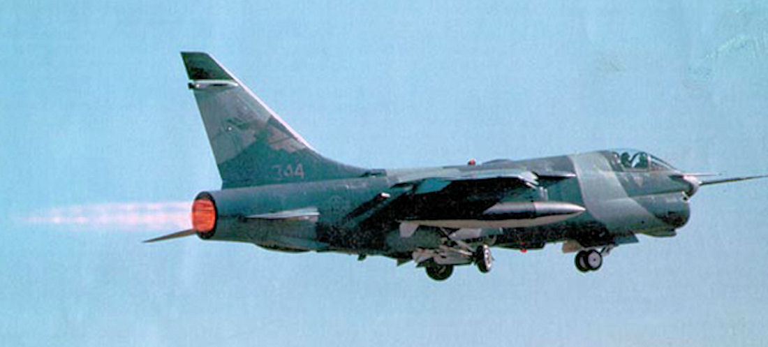 445th Flight Test Squadron YA-7F Corsair II 71-0344 Afterburner Flight